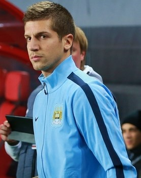 Matija Nastasić 2013